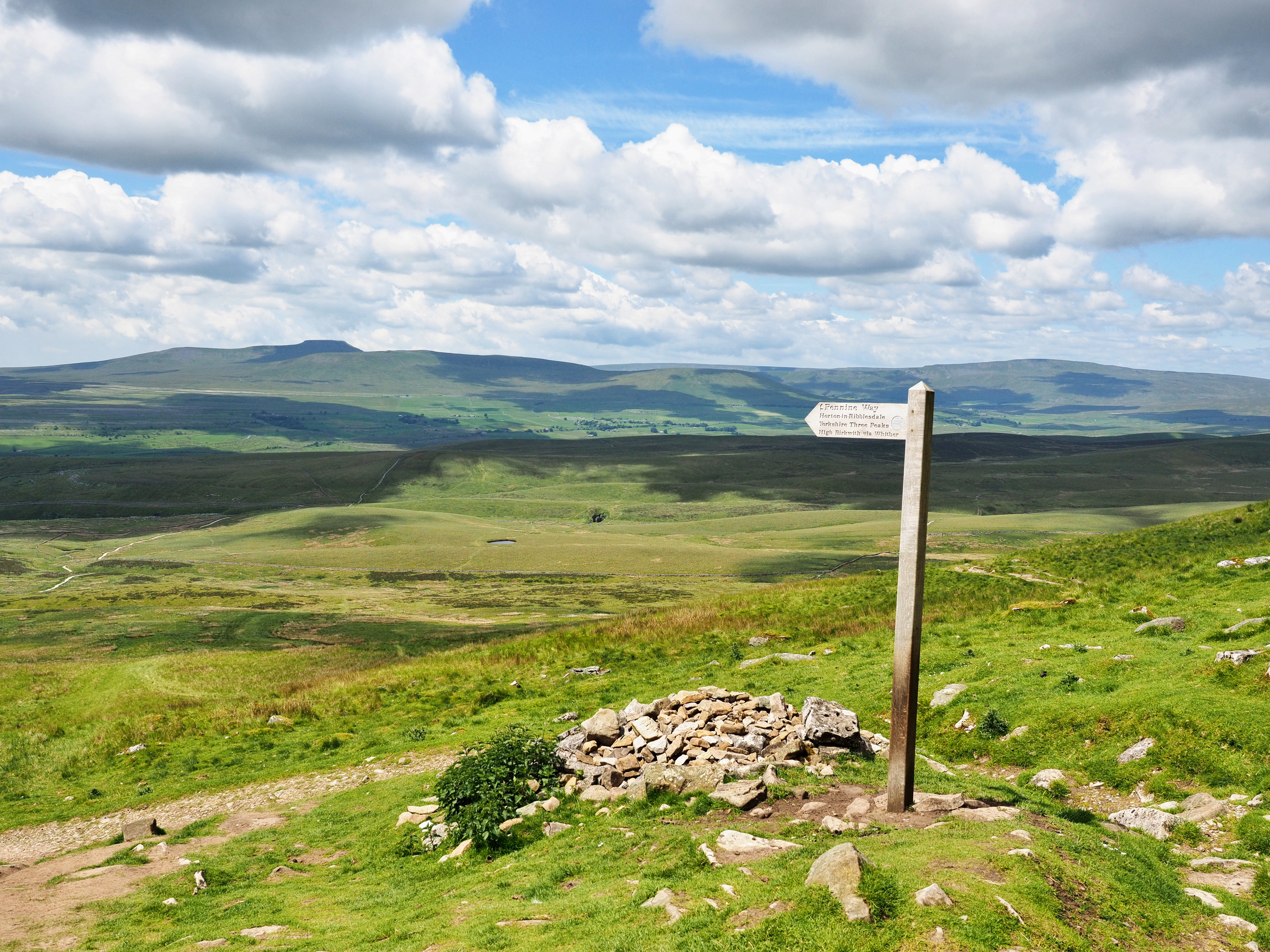 Looking from the western slope of Pen-y-ghent towards Ingleborough and Whernside